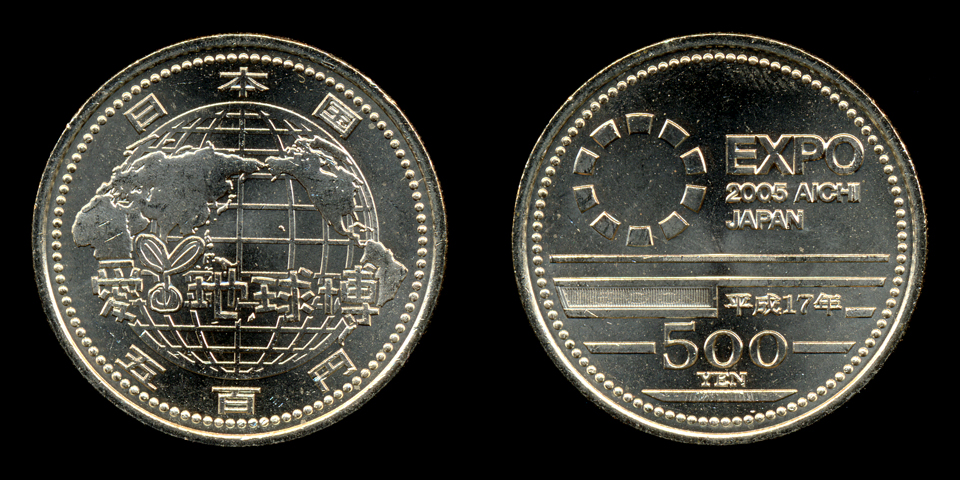 Aichi-banpaku